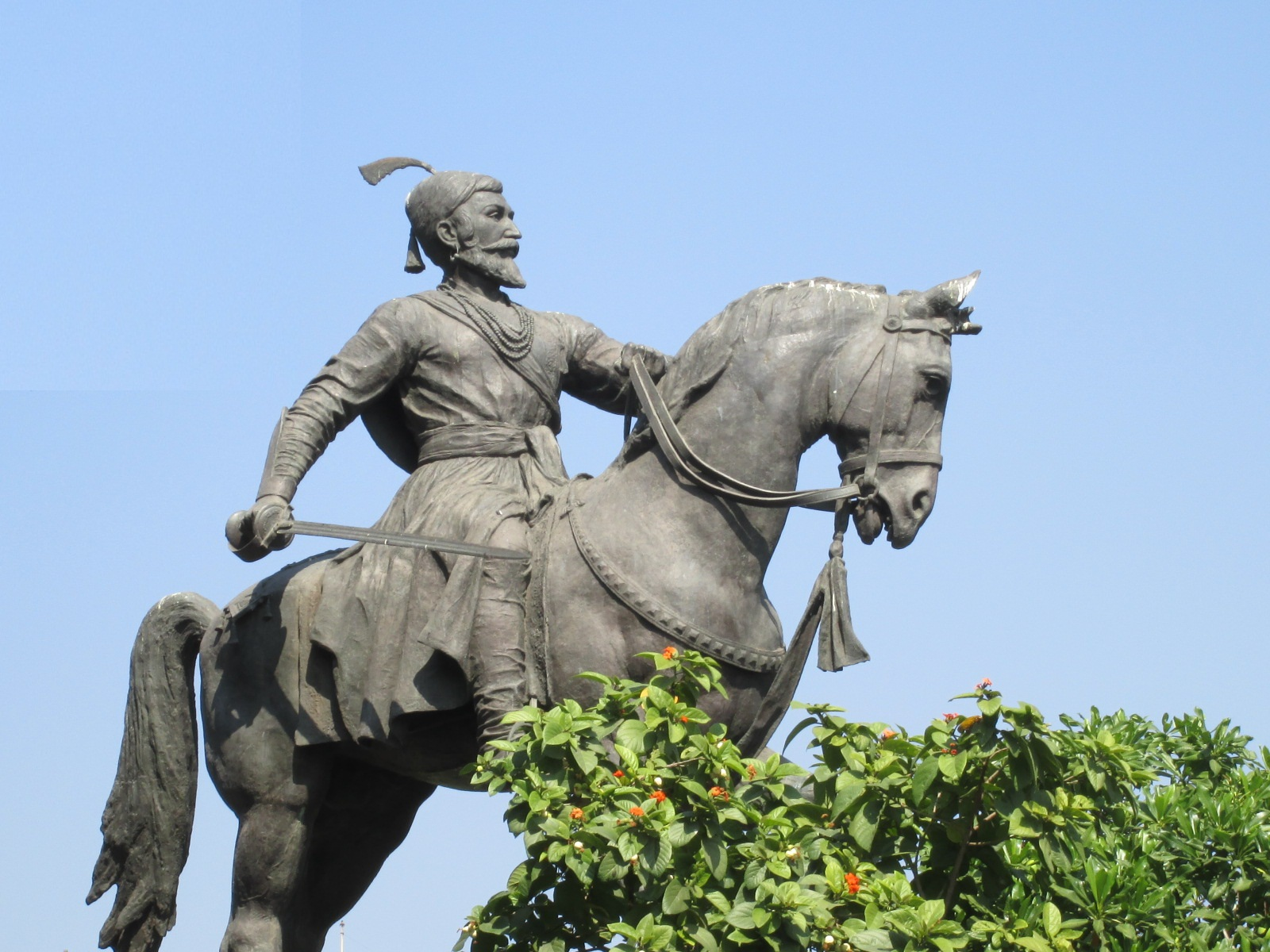 Statue of the Emperor of Maratha India - H.H. Chhatrapati Shivaji Raje Bhosale at Apollo Bunder in South Mumbai